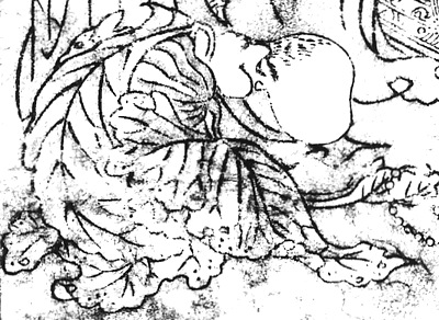 Hyōtankozō (瓢箪小僧, a calabash monster) from the Hyakki Tsurezure Bukuro (百器徒然袋)